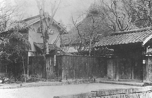 Daisuke Namba's Parent home